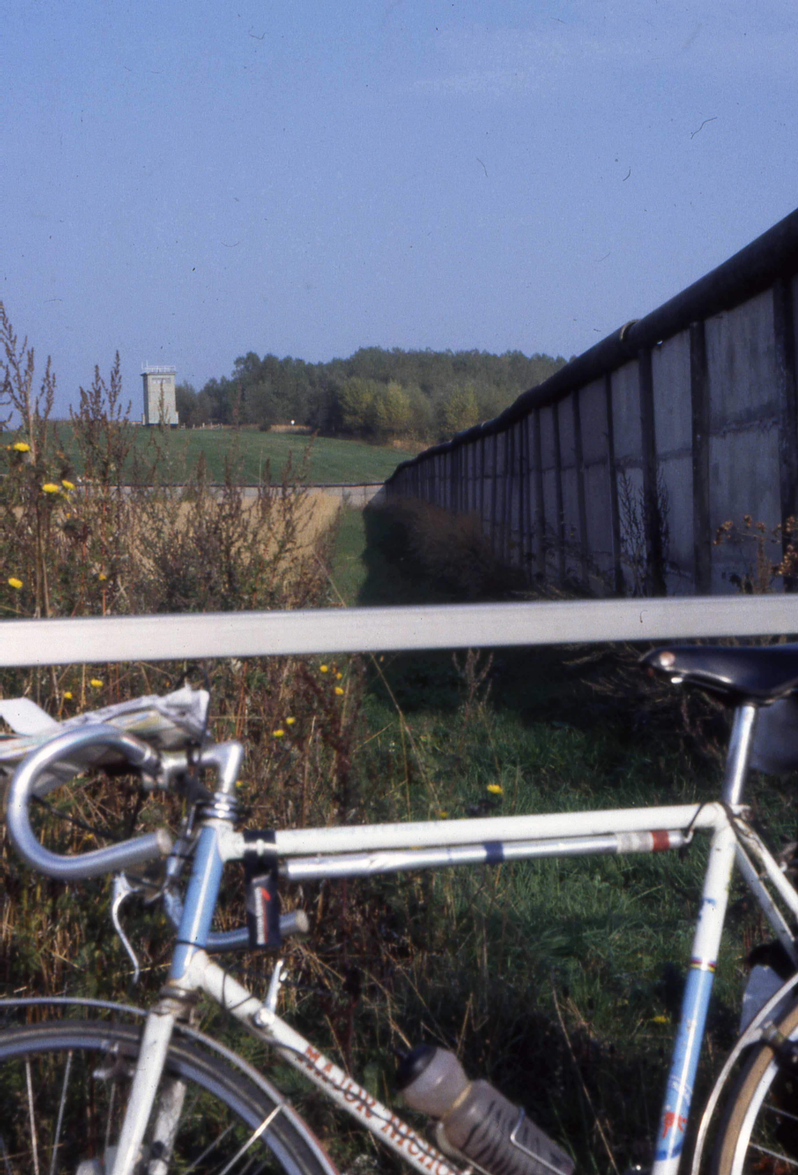 A small section of preserved wall west of Magdeburg (vermutlich bei Hötensleben).